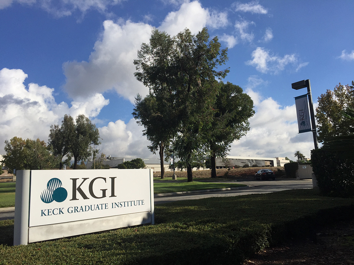 Keck Graduate Institute Campus